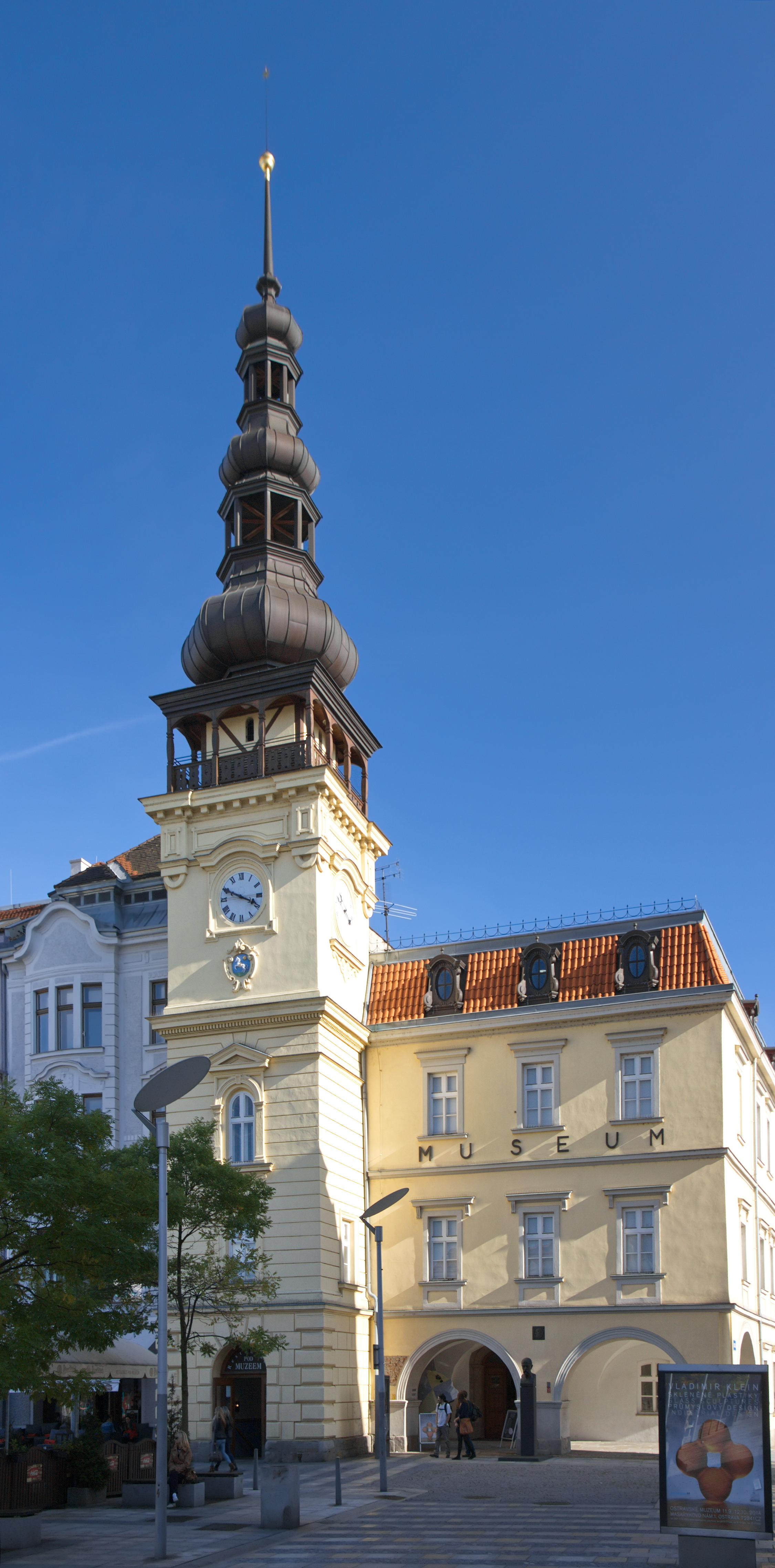 Old town hall, Moravská Ostrava, 1 Masarykovo náměstí, Ostrava. Moravian-Silesian Region, Czech Republic.